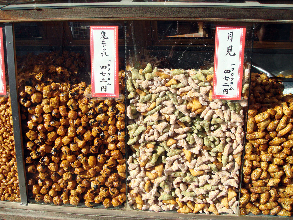 Arare for sale in bins.